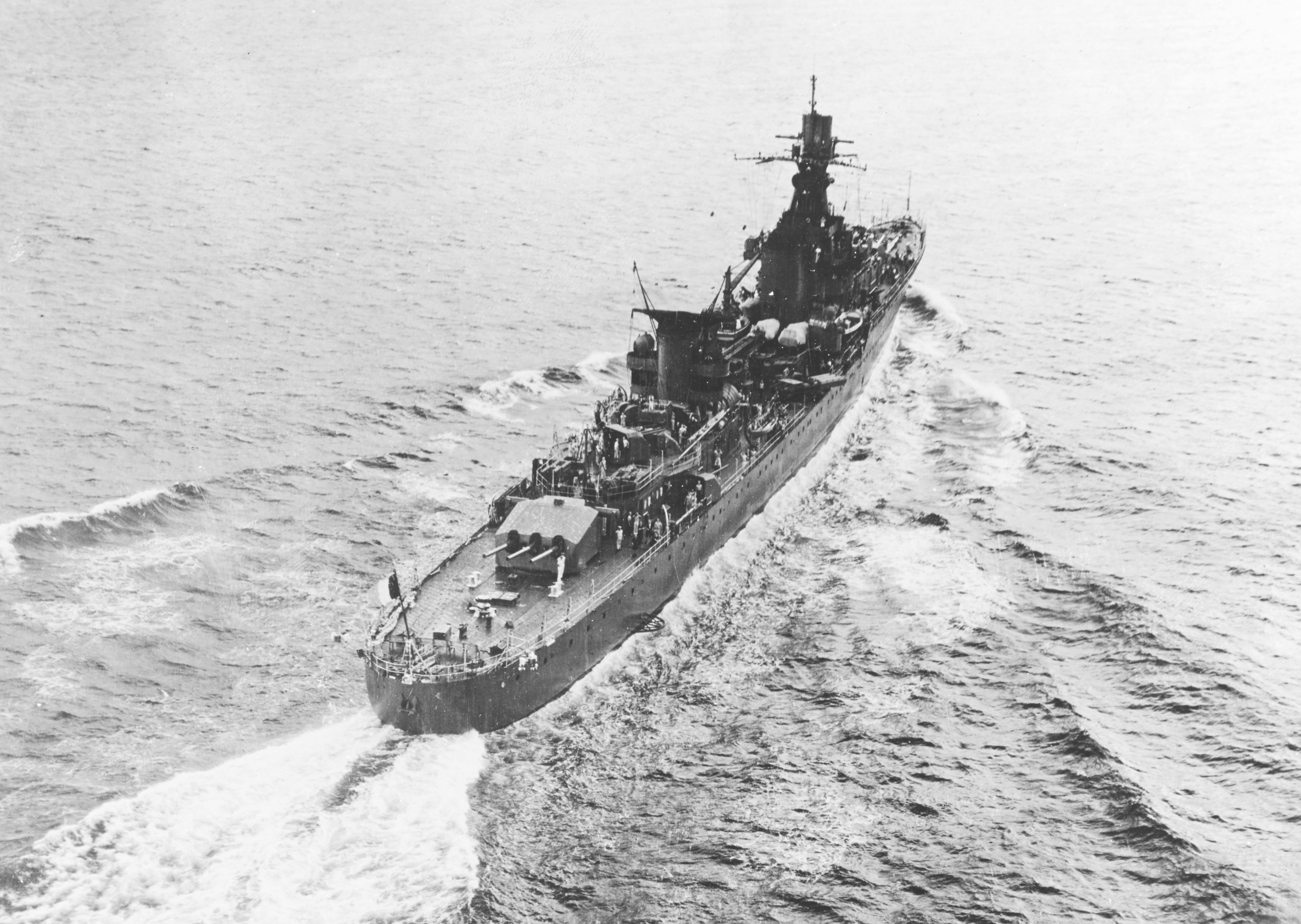 Aft view of the French cruiser Émile Bertin underway, circa in the 1930s.